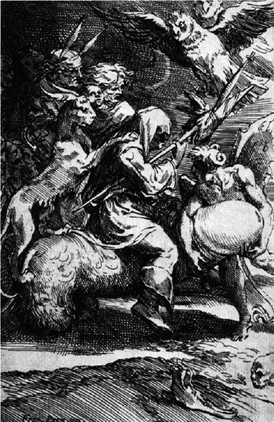 Witches' Sabbath